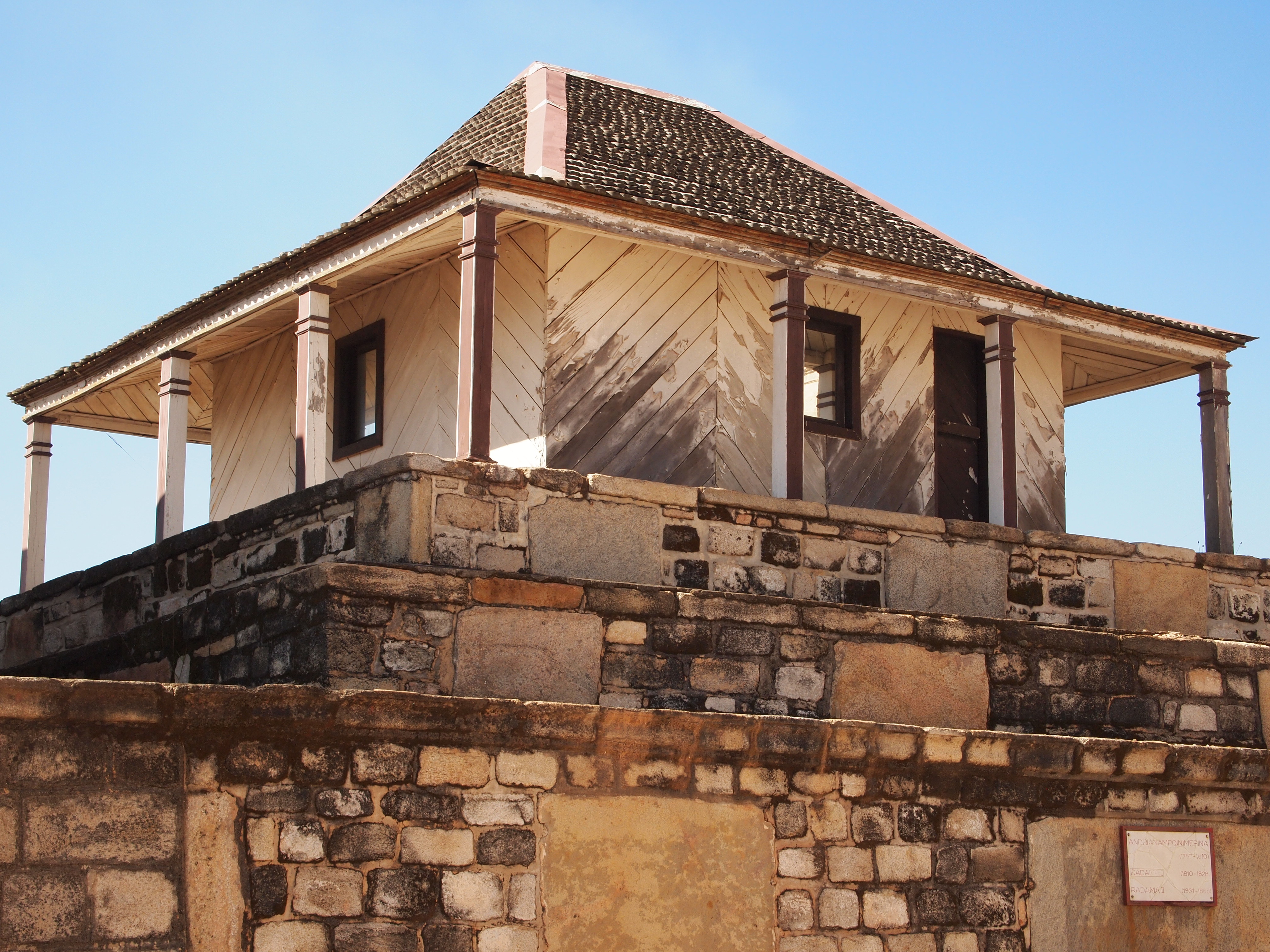 Radama I tomb at the Rova of Antananarivo in Madagascar